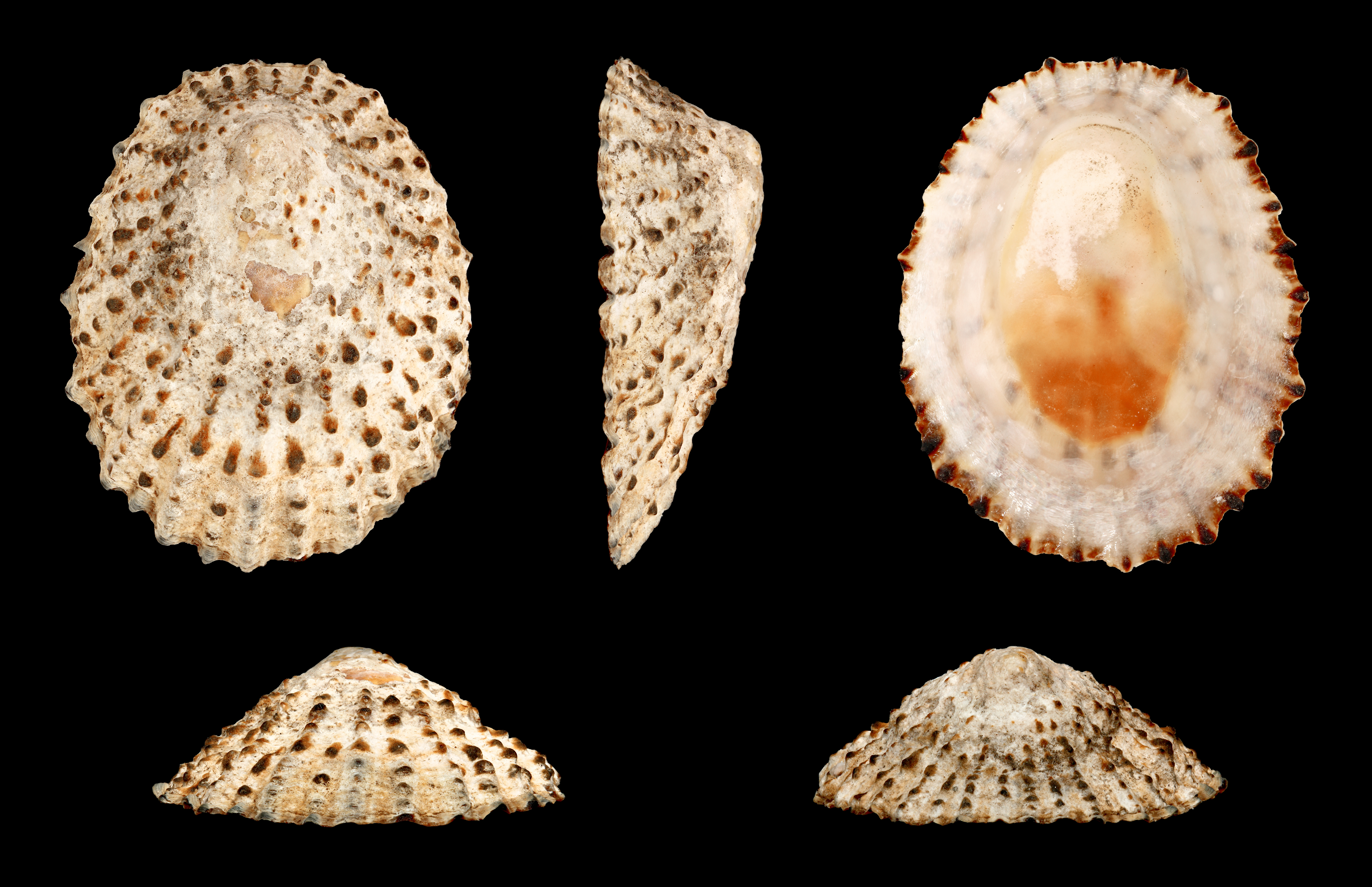 Length 2.8 cm; Originating from Playa de Montaña Bermeya, Lanzarote, Spain; Shell of own collection, therefore not geocoded. Dorsal, lateral (left side), ventral, back, and front view.